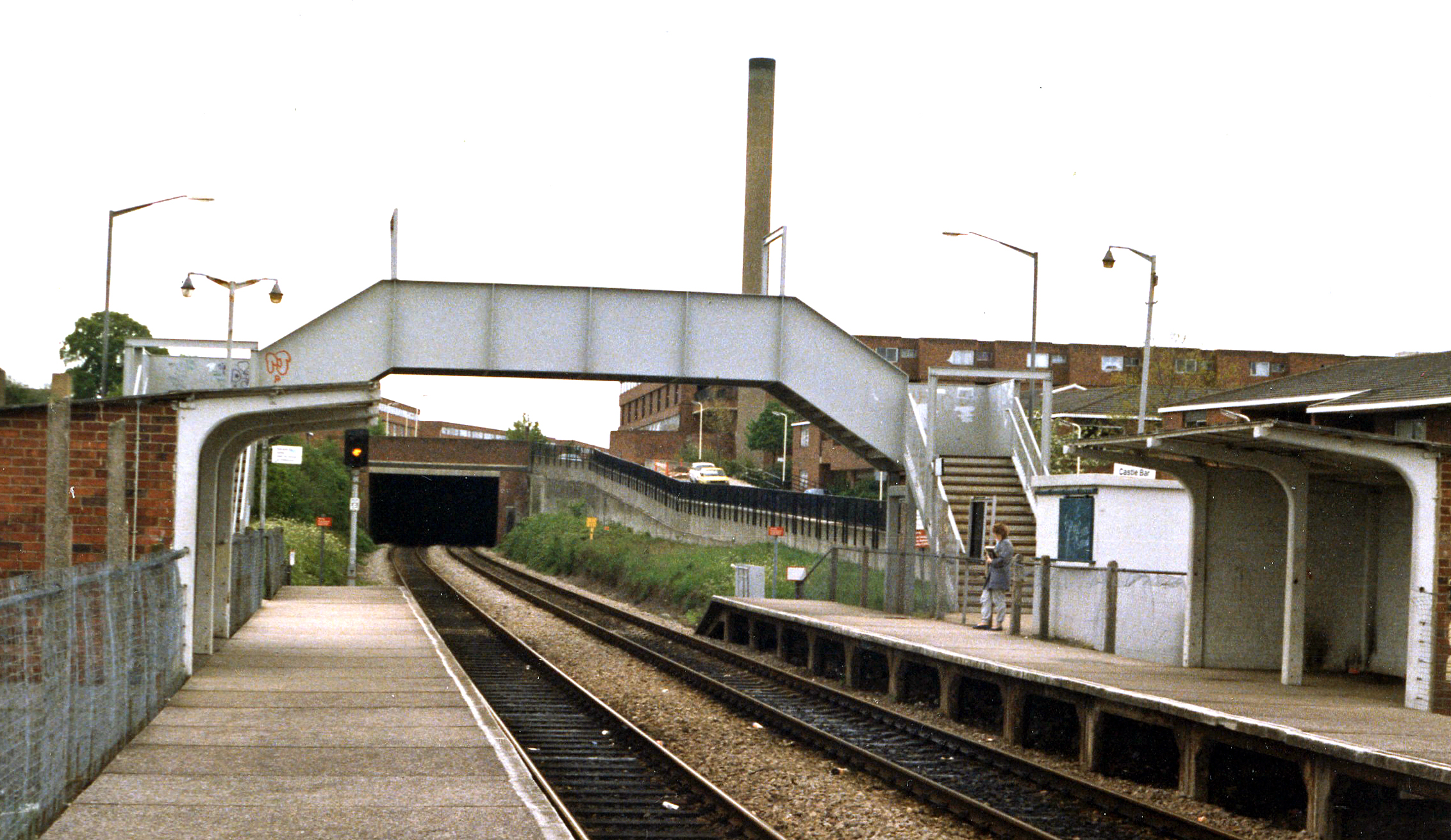 Castle Bar Park station, 1986. View southward, towards West Ealing and Hanwell: ex-GWR West Ealing/Hanwell - Greenford loop line.